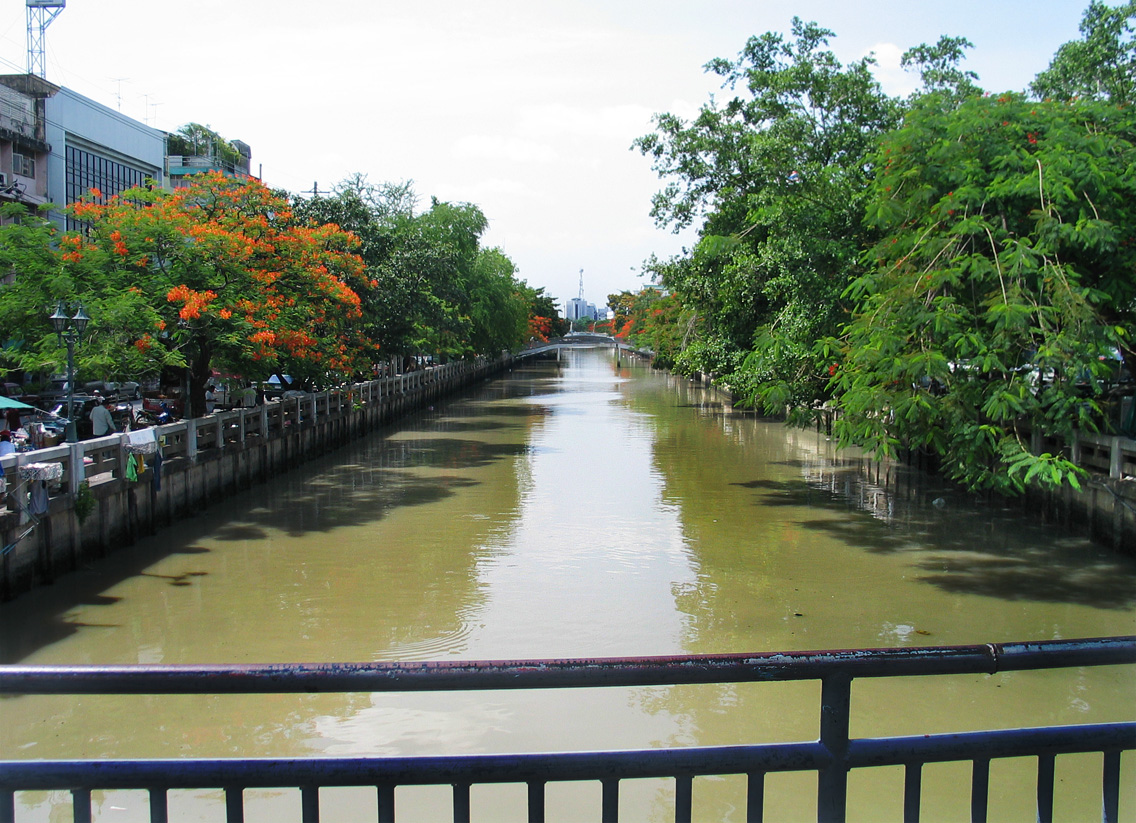 View along Khlong Padung Krung Kasem, one of the many canals of Bangkok, Thailand